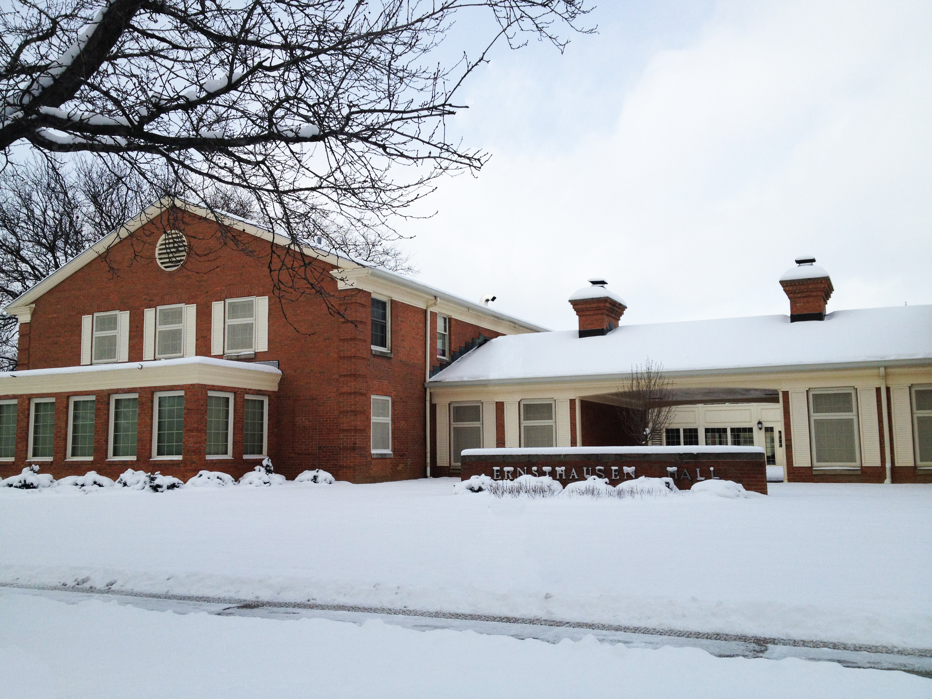 Ernsthausen Hall on Baldwin Wallace University South Campus